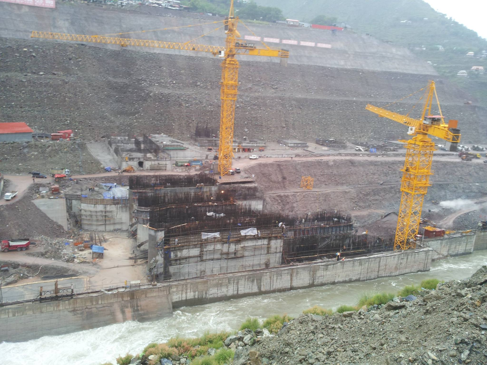 A visit to Kashmir